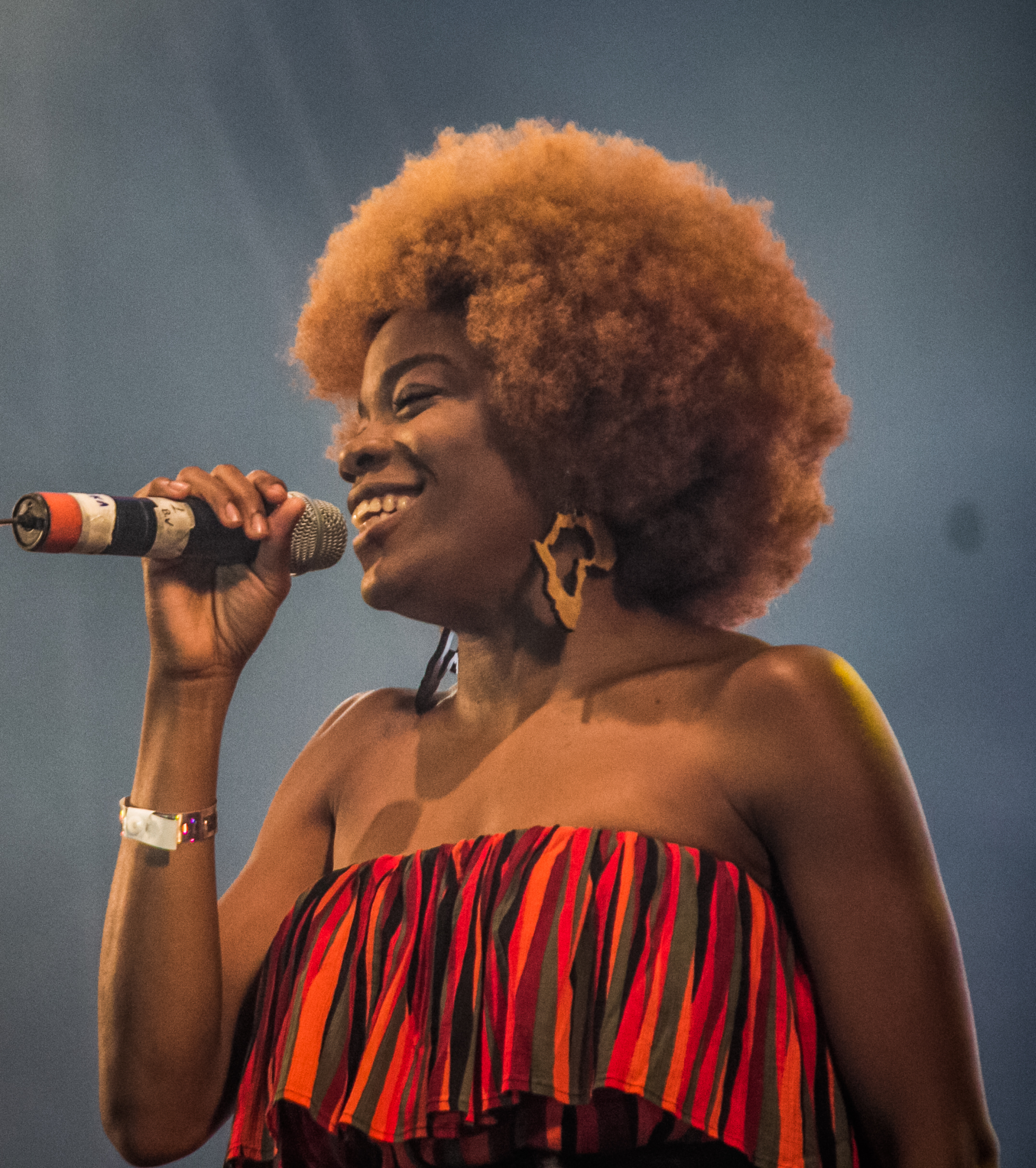 Malika Tirolien at the 7th Festival Latinidades (2014) in Brasília, Brazil.